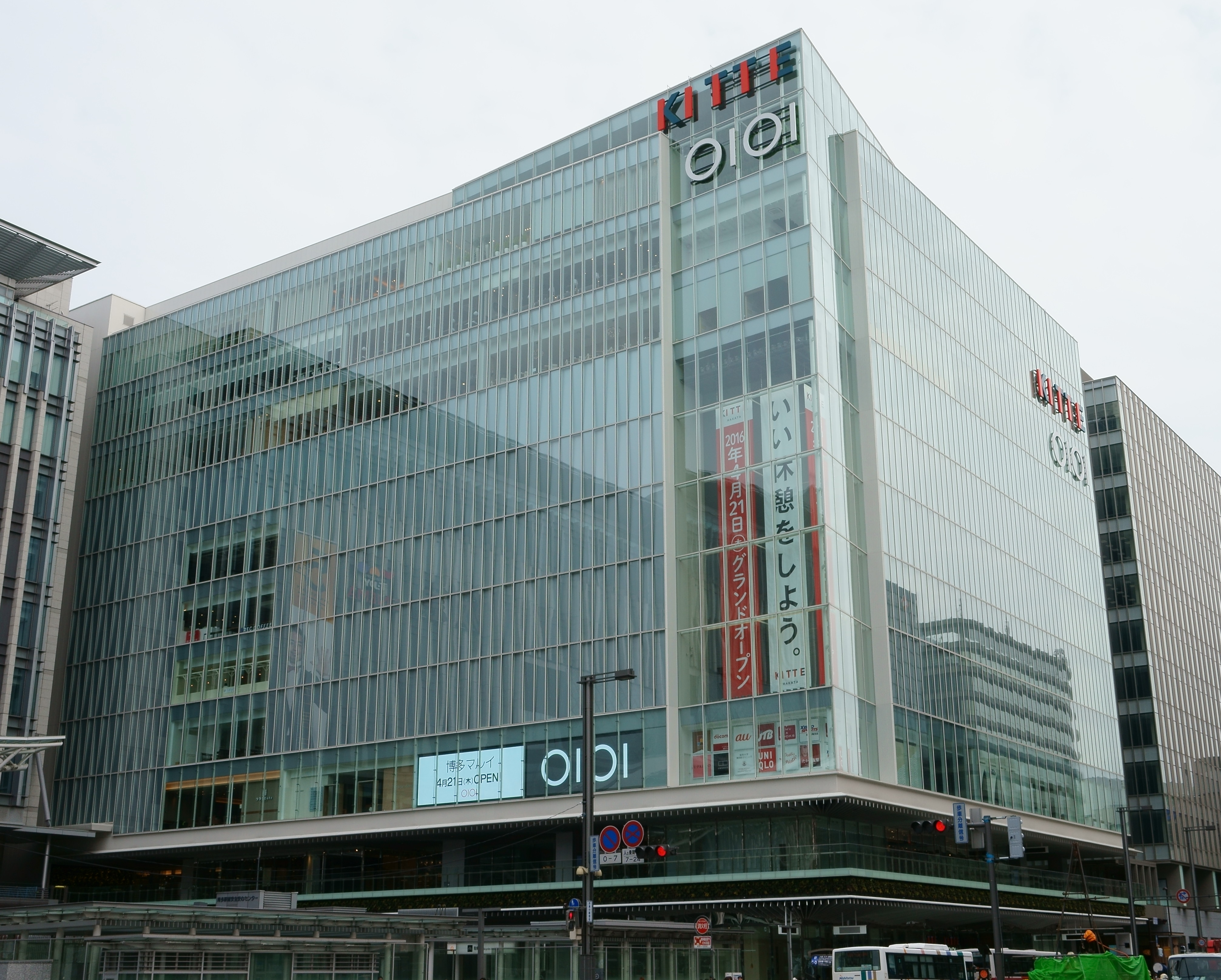 The KITTE-Hakata building, Fukuoka, Japan.